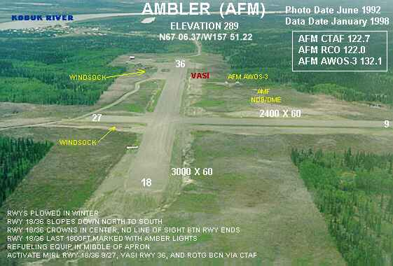 Annotated aerial photograph of Ambler Airport (AFM) in Ambler, Alaska, United States.